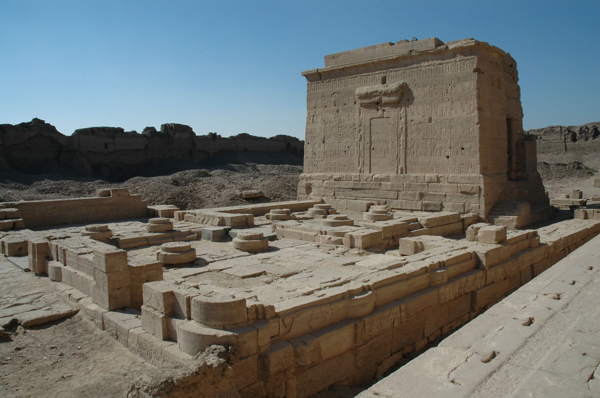 Temple of the birth of Isis, located behind Hathor temple of Dendera